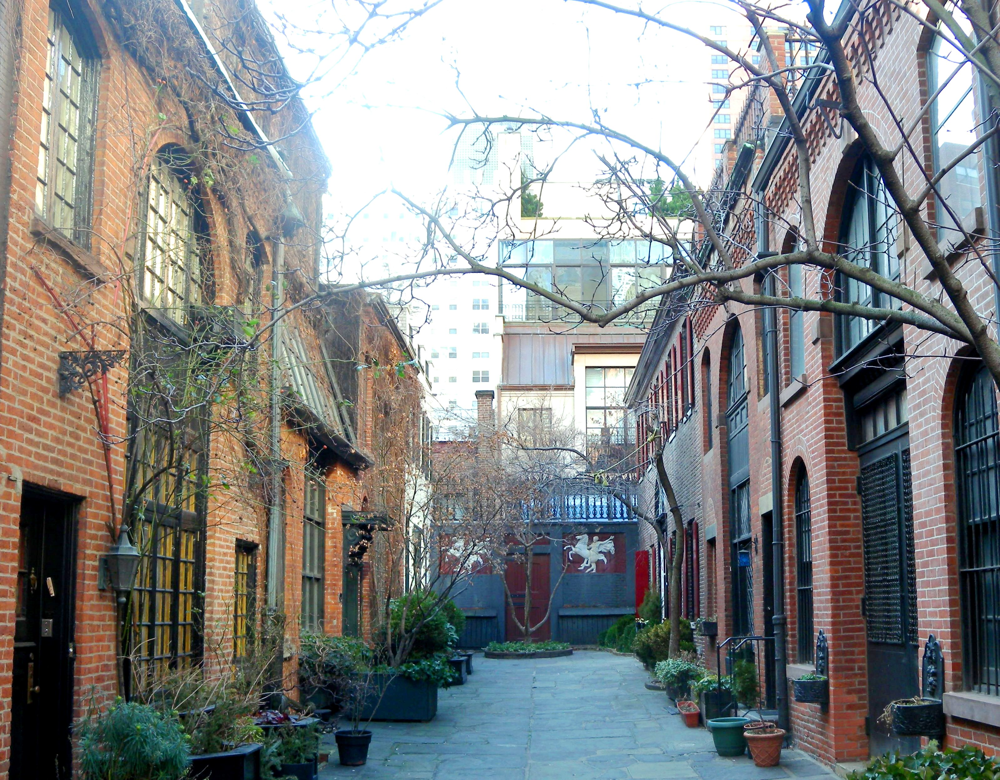 Looking south through iron gate at Sniffen Court on a cloudy morning. ZIP 10016.